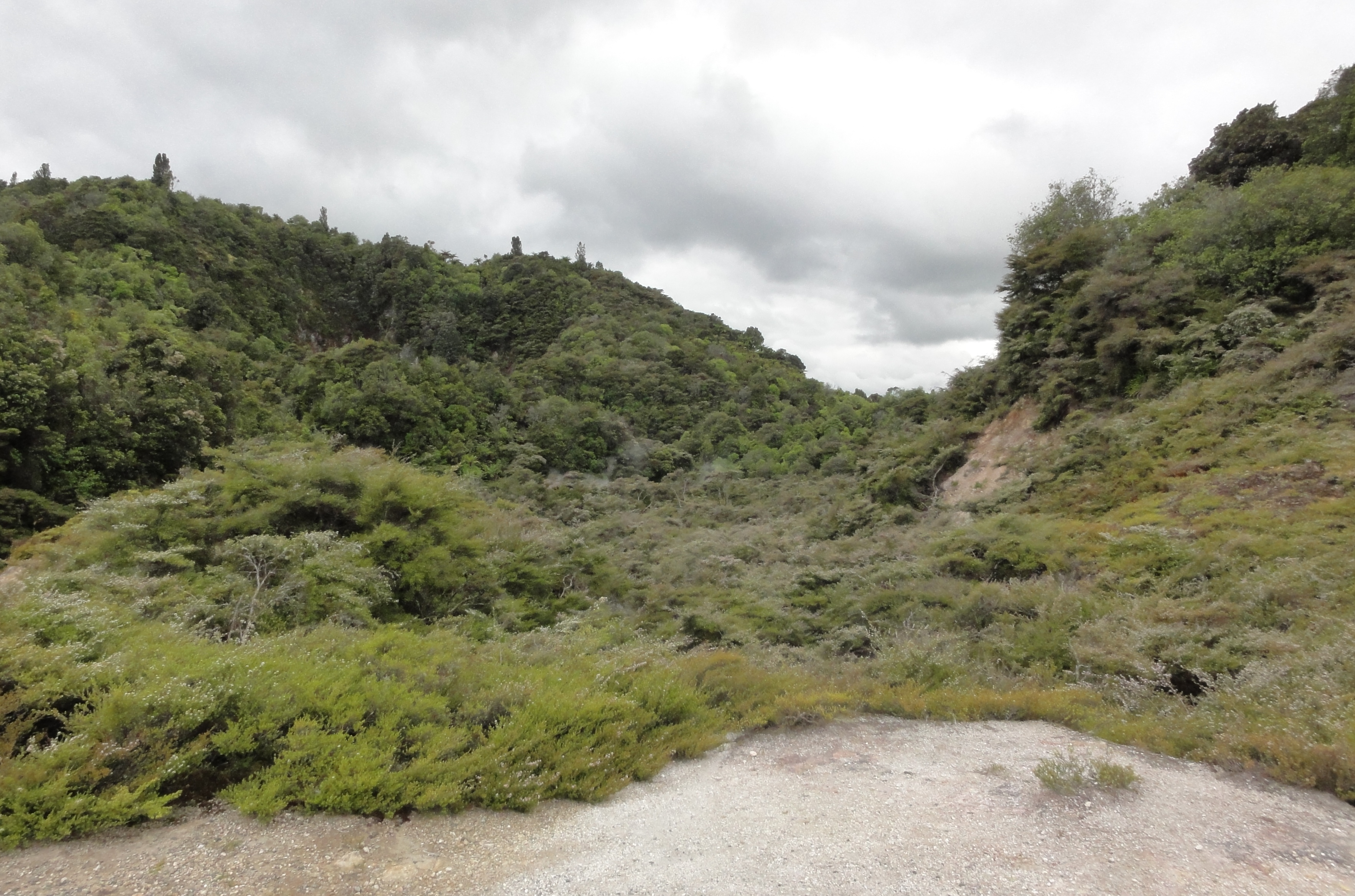 place of former Waimangu geyser in 2011, Waimangu valley near Rororua, New Zealand